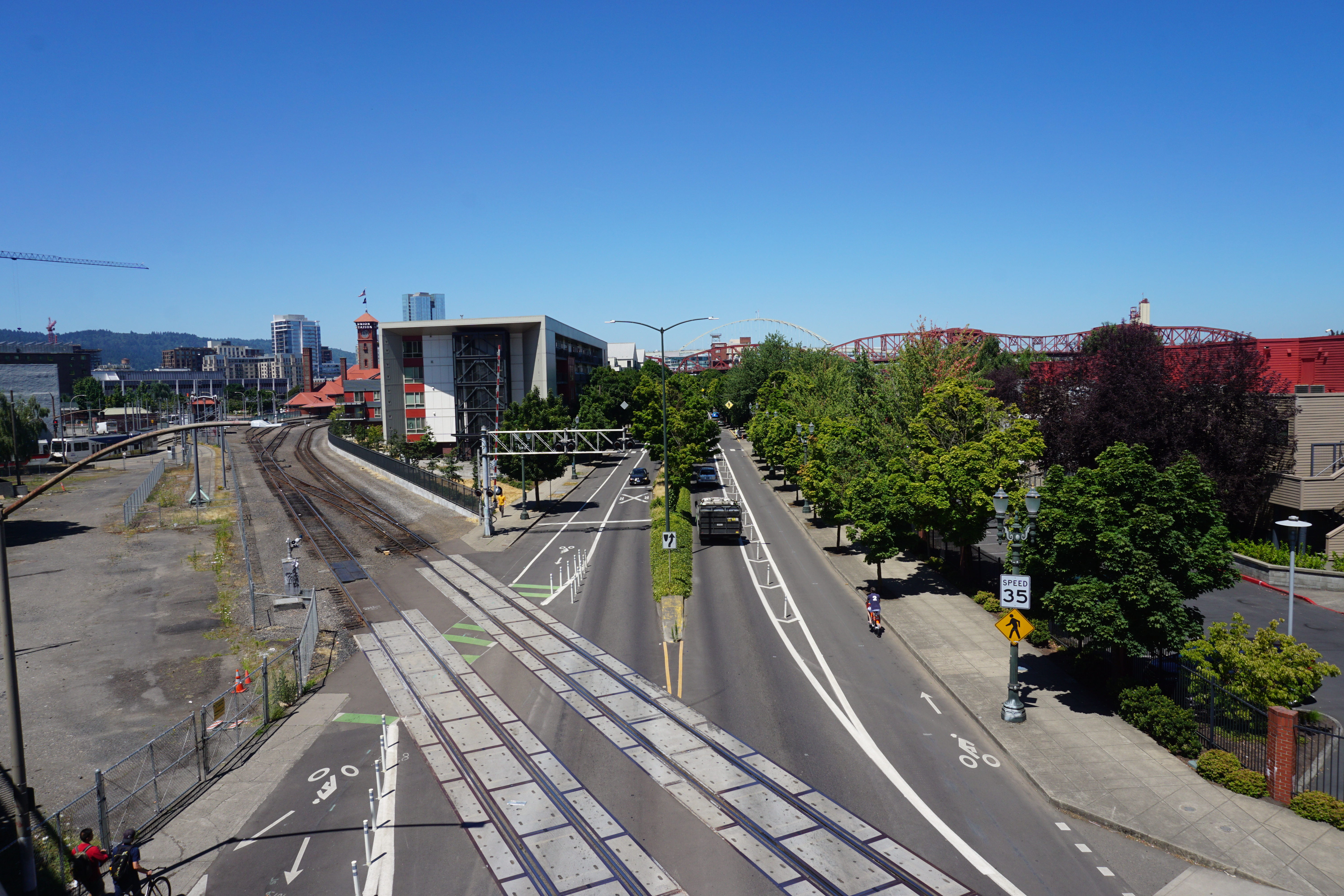 Northwest Naito Parkway in Portland, Oregon (United States).